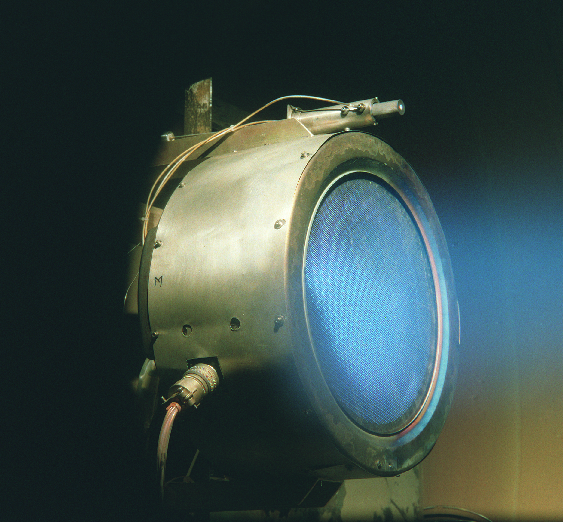 Image of a xenon ion engine prototype.